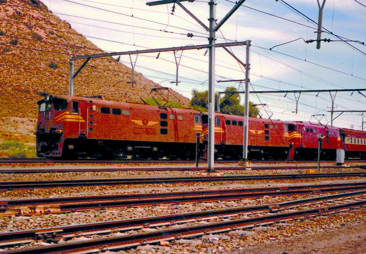 E326, E319 and E297 leaving Touwsrivier with an eastbound Transkei migrant return train working from Cape Town in about September 1984